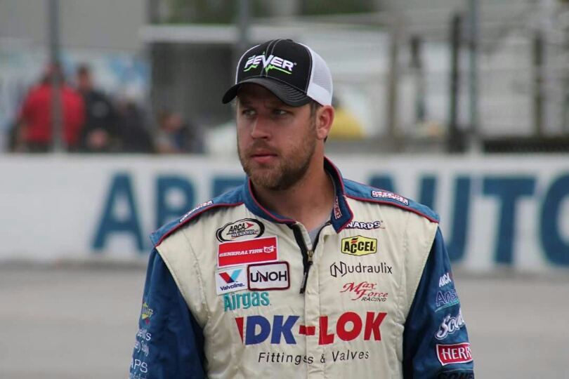 ThomasPraytor2016